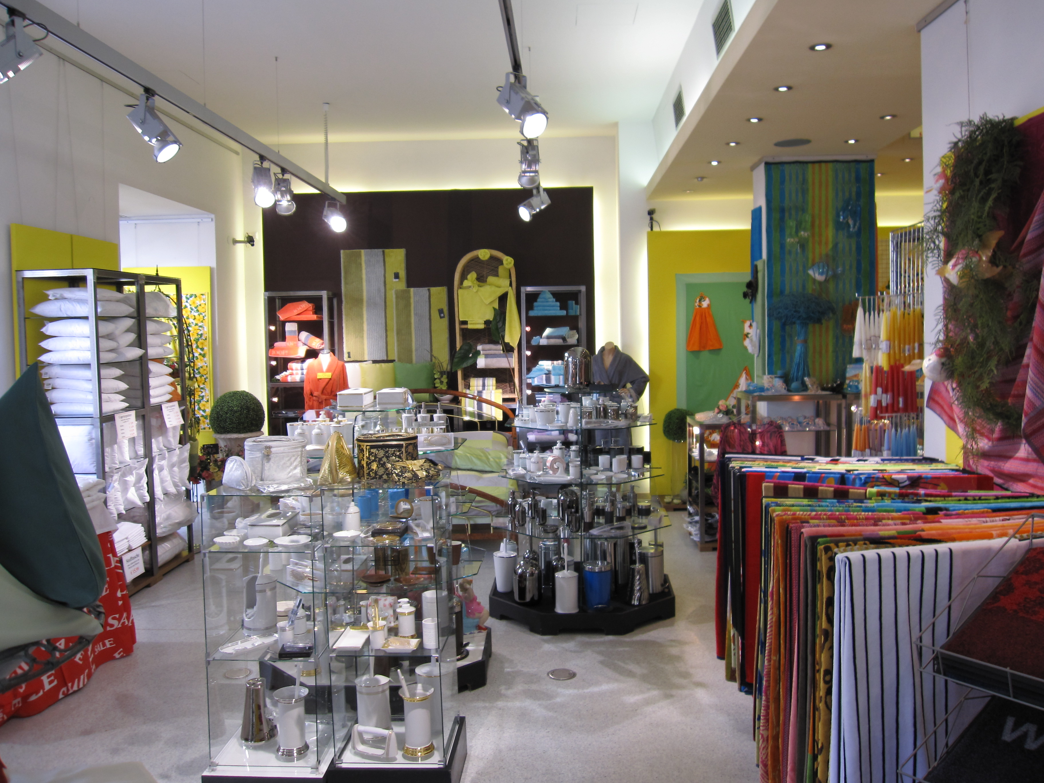 Interior of Kranner shop in Vienna's I. district